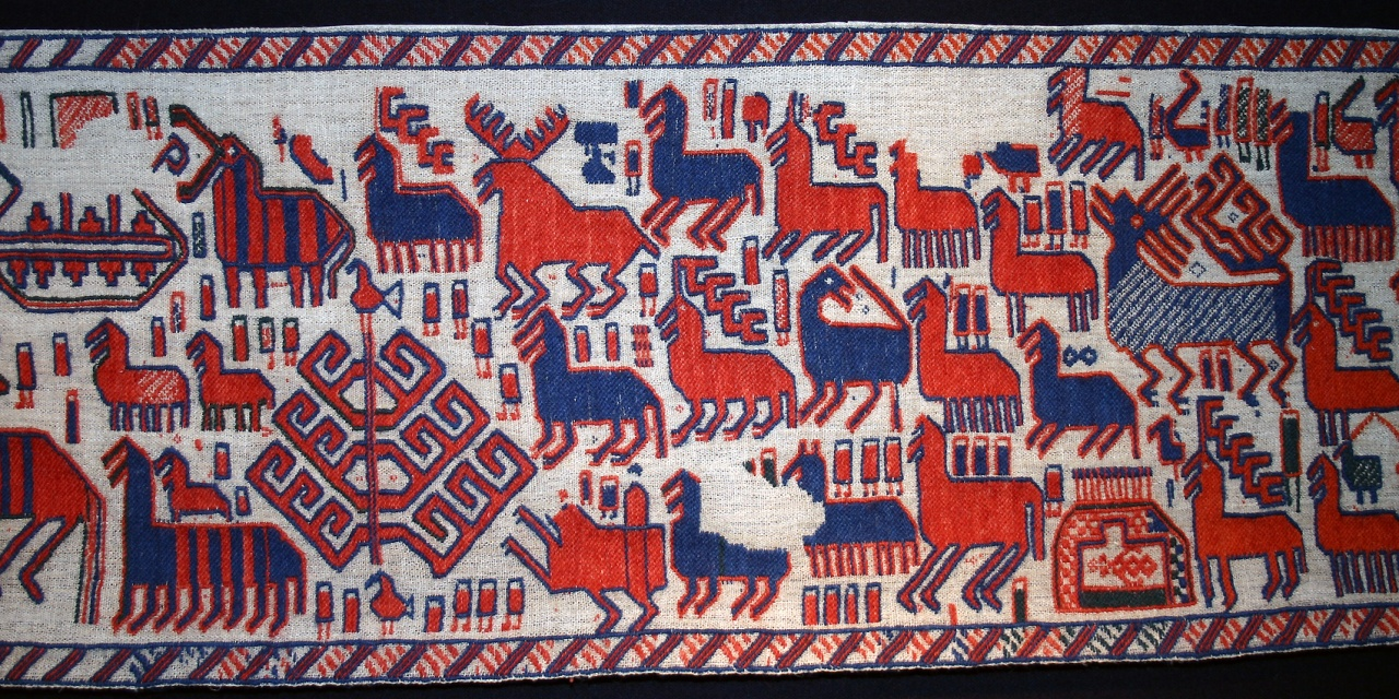 Detail from one of the Överhogdal tapestries found 1909 in Överhogdal, Sweden.